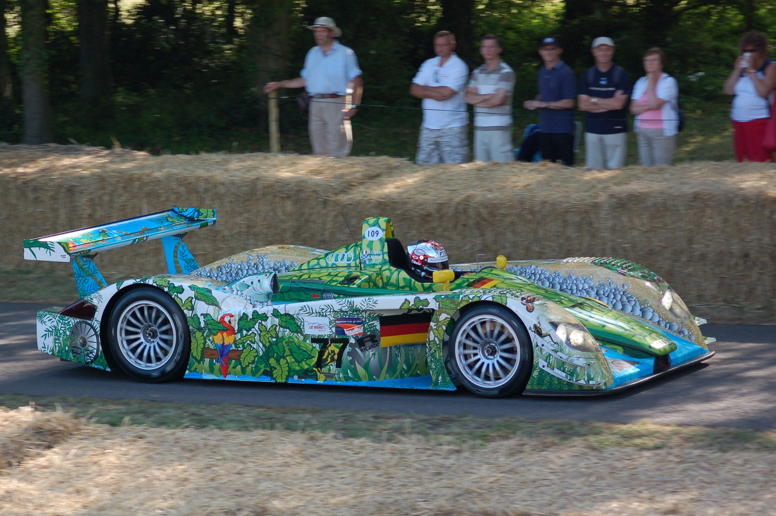 A 2000 Audi R8 being demonstrated at the Goodwood Festival of Speed. This car, in its unique crocodile livery, was driven by Rinaldo Capello and Allan McNish to victory in the Race of a Thousand Years in Adelaide, Australia, on New Years Eve, 2000. The car had also been driven in practice by Australian-based Audi touring car driver Brad Jones, after doubts had arisen as to whether McNish would be fit enough to drive it in the race.